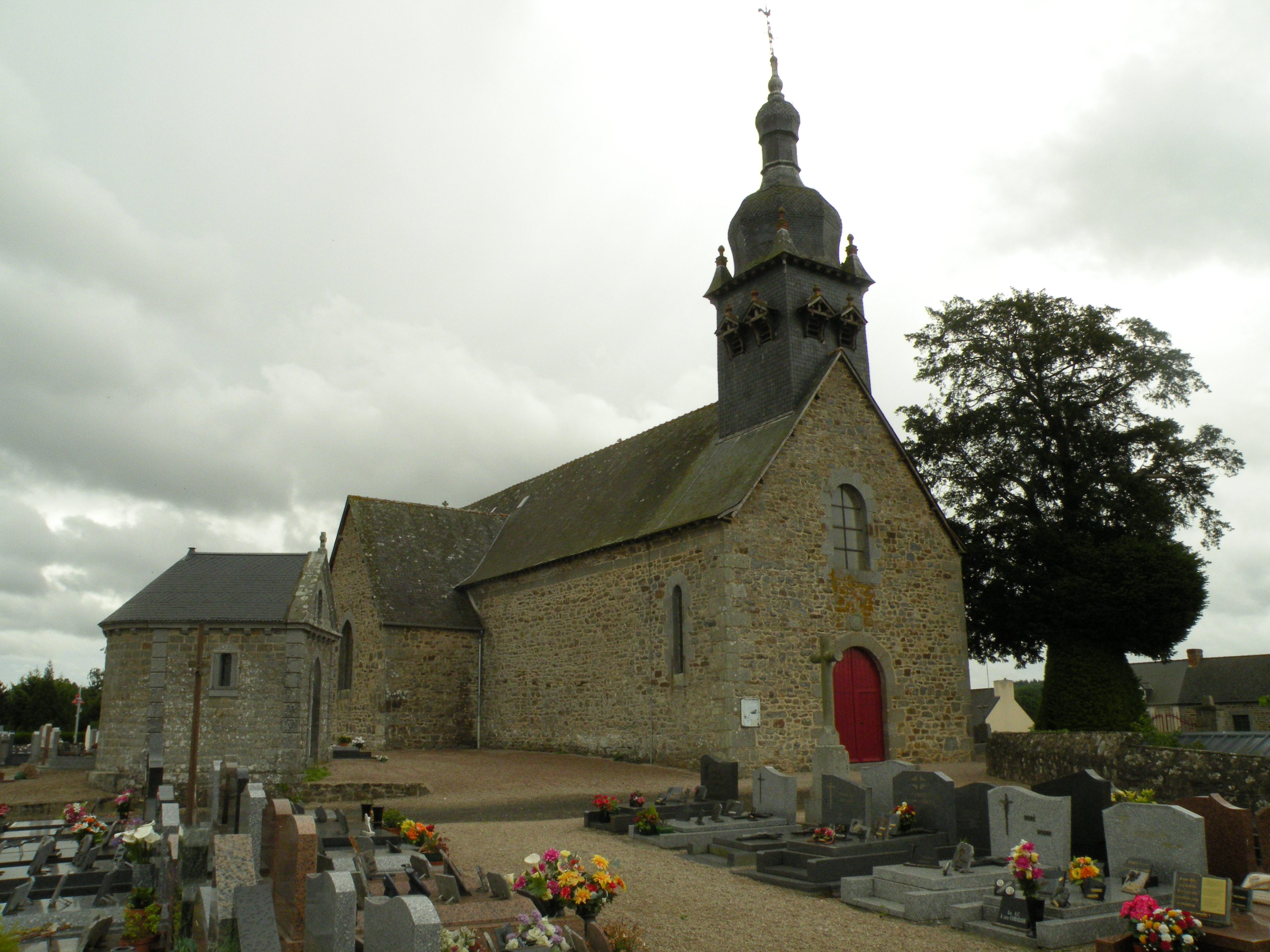 Saint-Joseph church in La Chapelle-aux-Filtzméens.